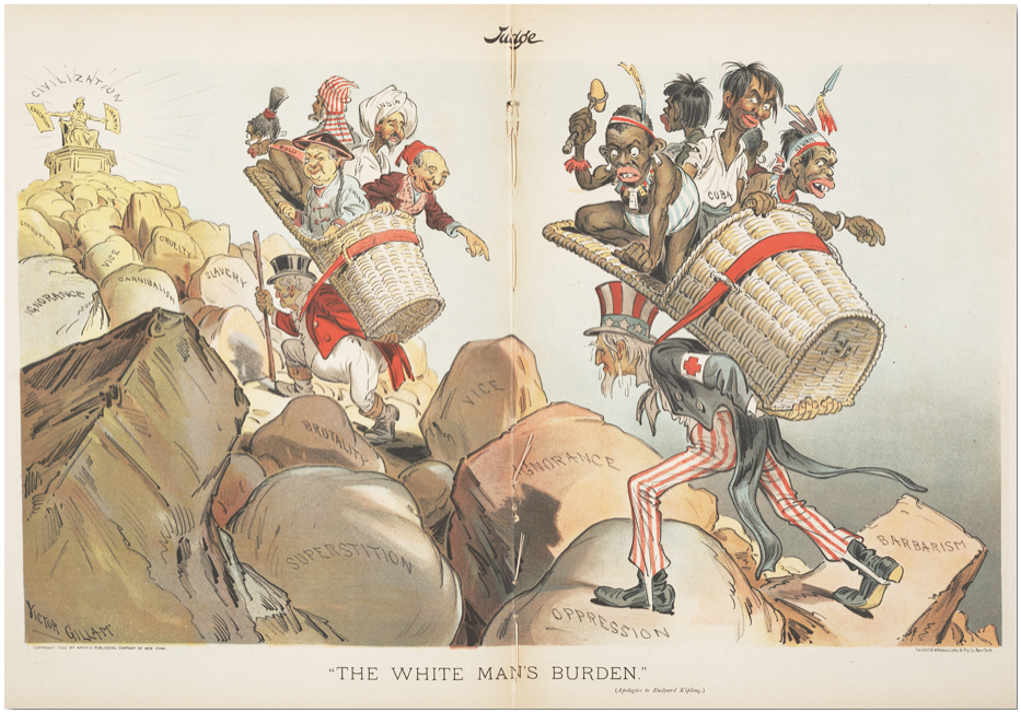 This cartoon depicts a representation of Rudyard Kipling's famous poem The White Man's Burden. Originally published in February, 1899 the poem's philosophy quickly developed as the United States response to annexation of the Philippines. The United States used the "white man's burden" as an argument for imperial control of the Philippines and Cuba on the basis of moral necessity. It was now the United States' moral duty to develop and modernize the conquest lands in order to help carry the foreign barbarians to civilization.